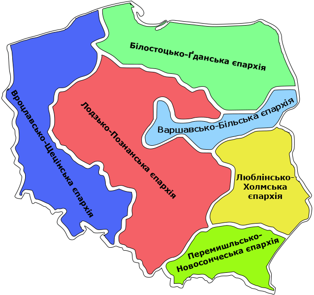 Dioceses of Polish Autocephalous Orthodox Church in Poland with Ukrainian titles